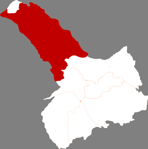 Locator map of Jarud Banner in Tongliao, Inner Mongolia, China